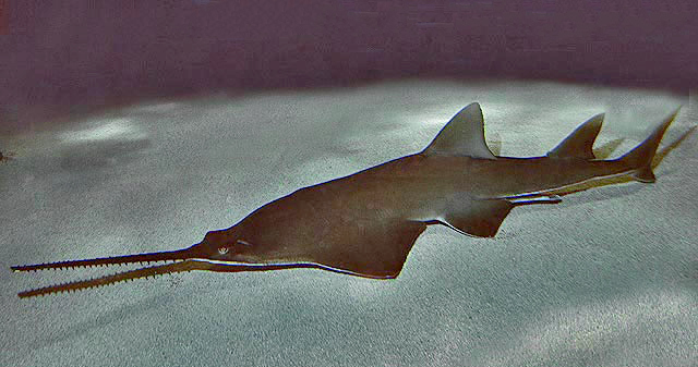 Pristis pectinata (Aquarium of the Americas)